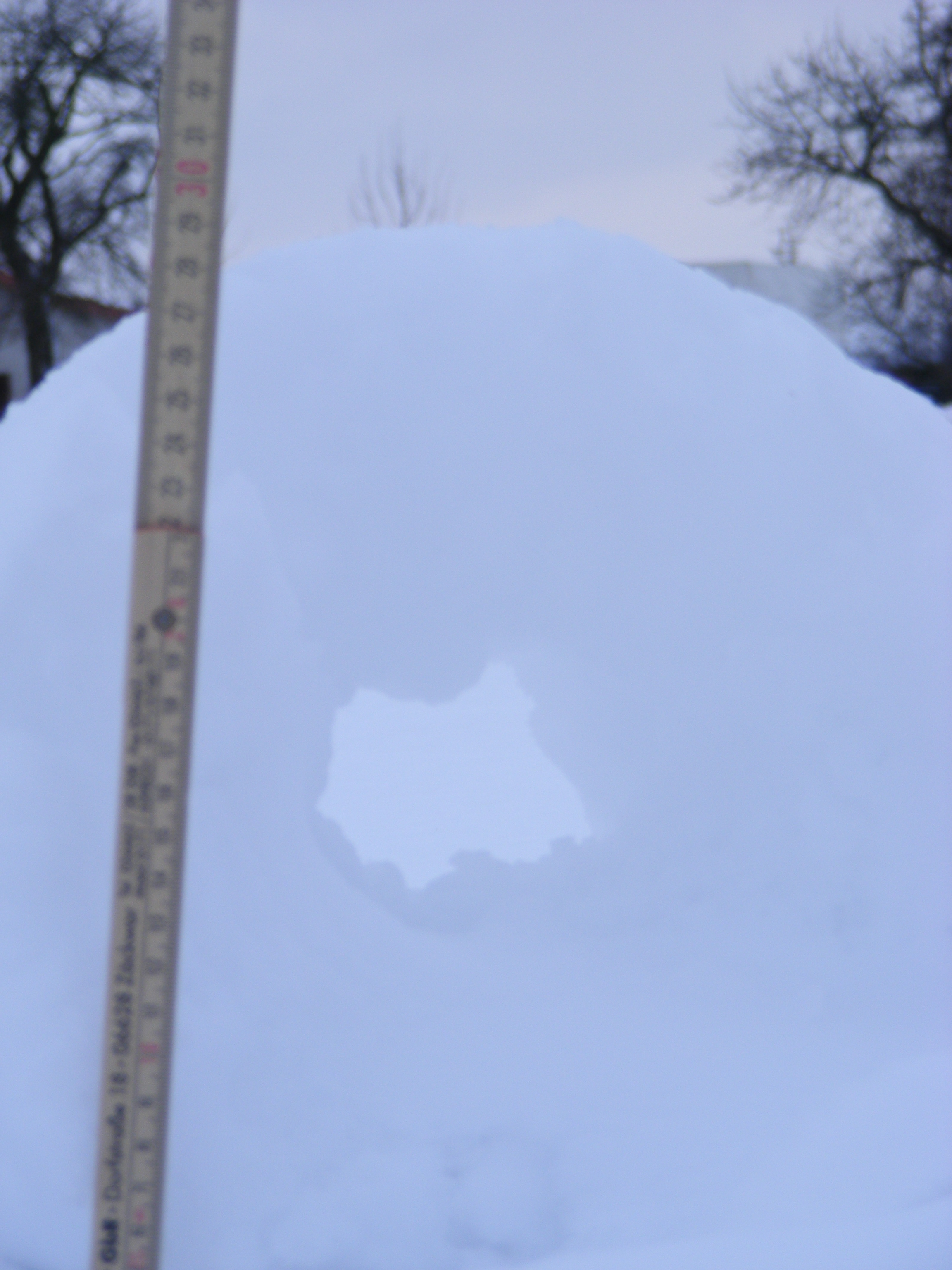 Duchmesser Schneerolle